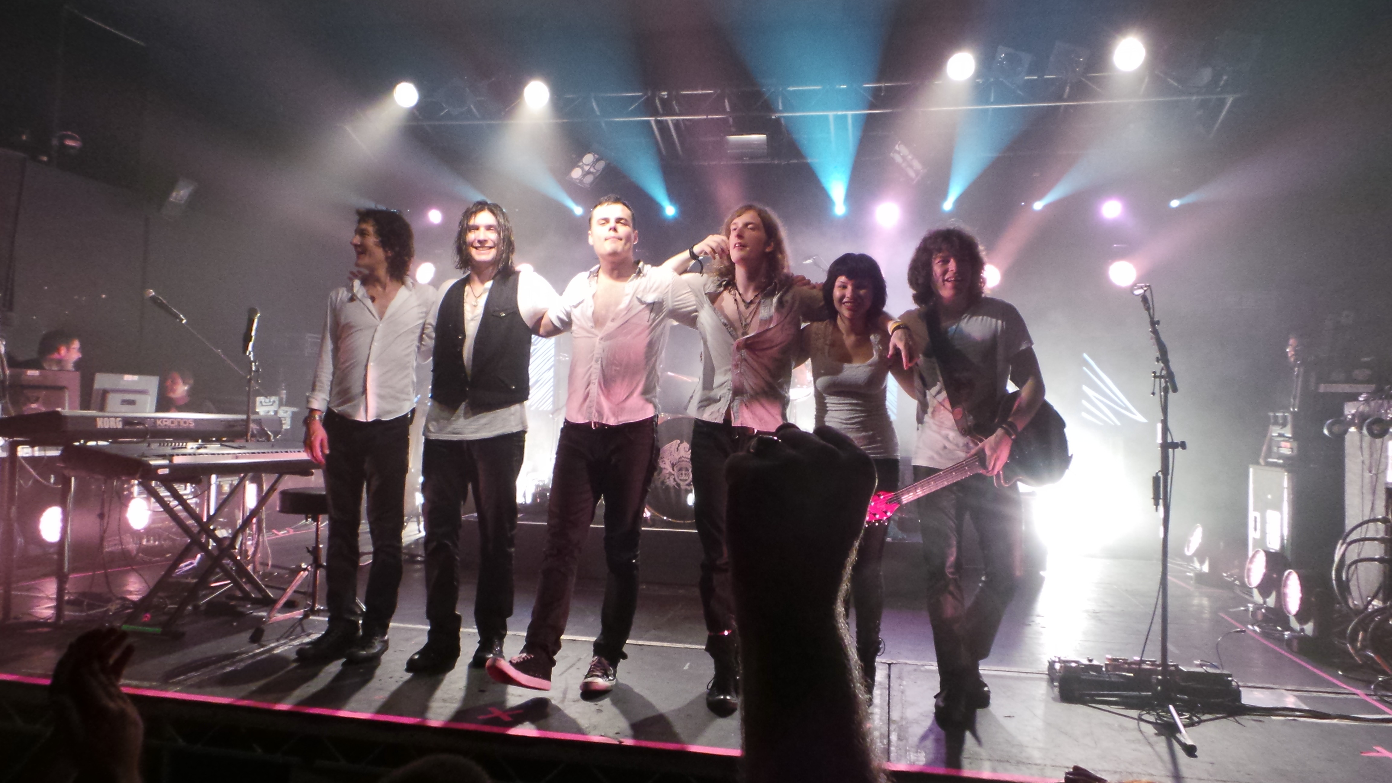 Queen Extravaganza in 2013